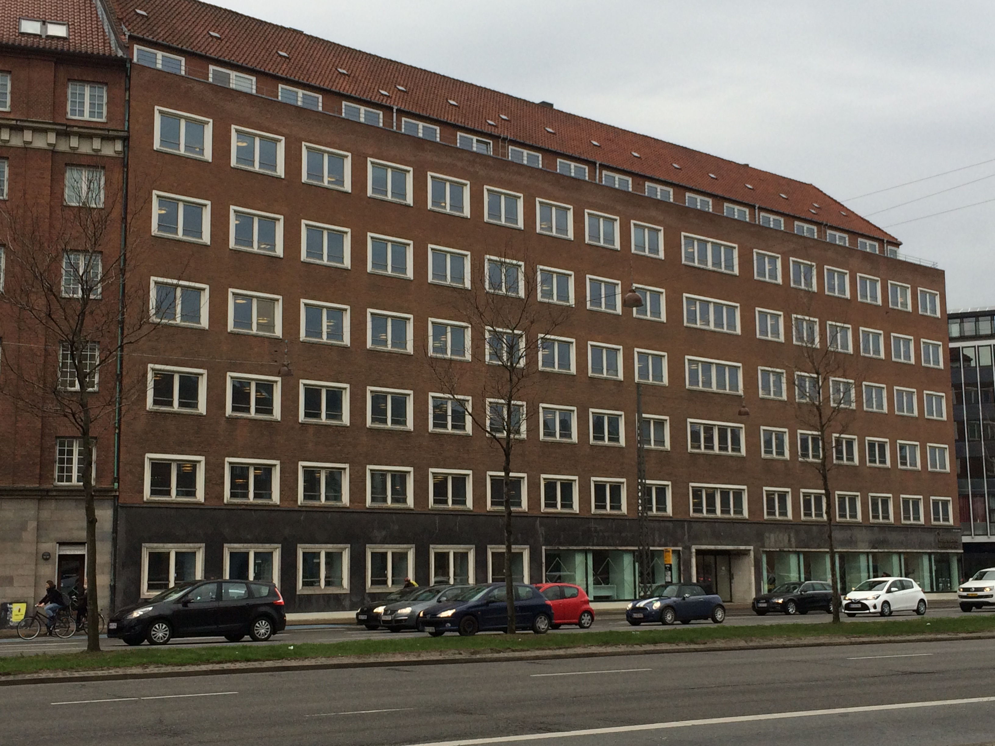 Hans Nansens Gård, Gyldenløvesgade, Copenhagen, Denmark